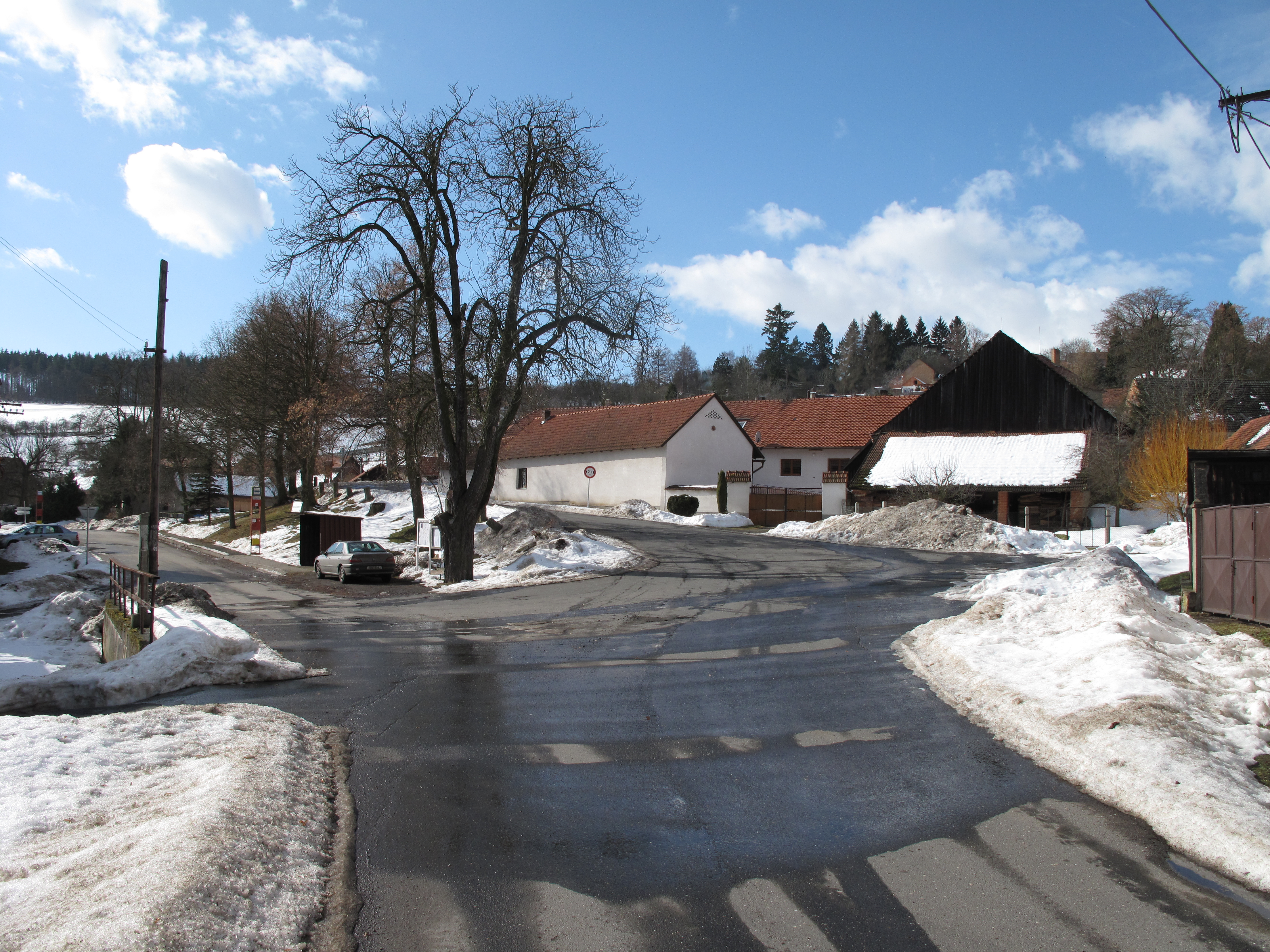 Village square at Kostelní Střimelice (Stříbrná Skalice), Prague-East District, Czech Republic. This photograph was taken within the scope of the 'Czech Municipalities Photographs' grant.